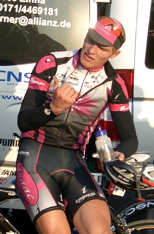 Karsten Volkmann